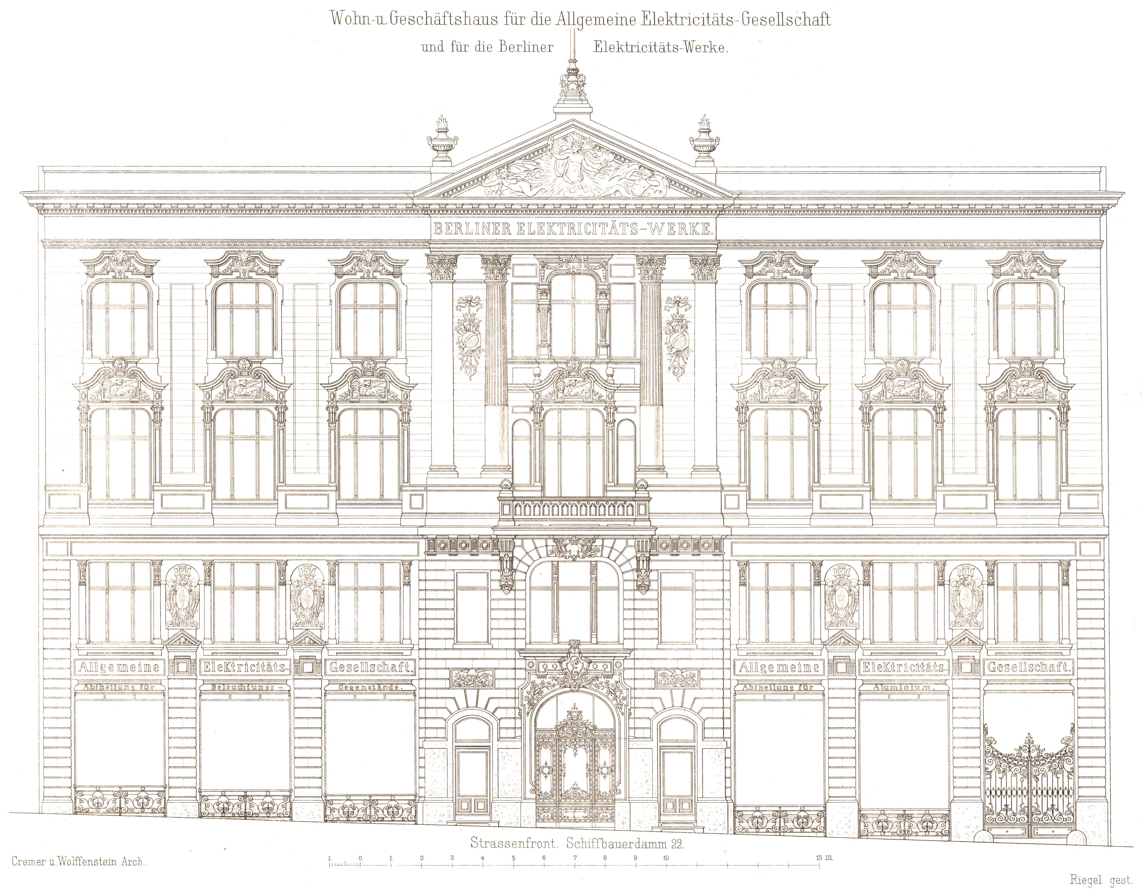 Berlin - Allgemeine Elektrizitätsgesellschaft (AEG), Schiffbauerdamm 23, designed by Cremer & Wolffenstein